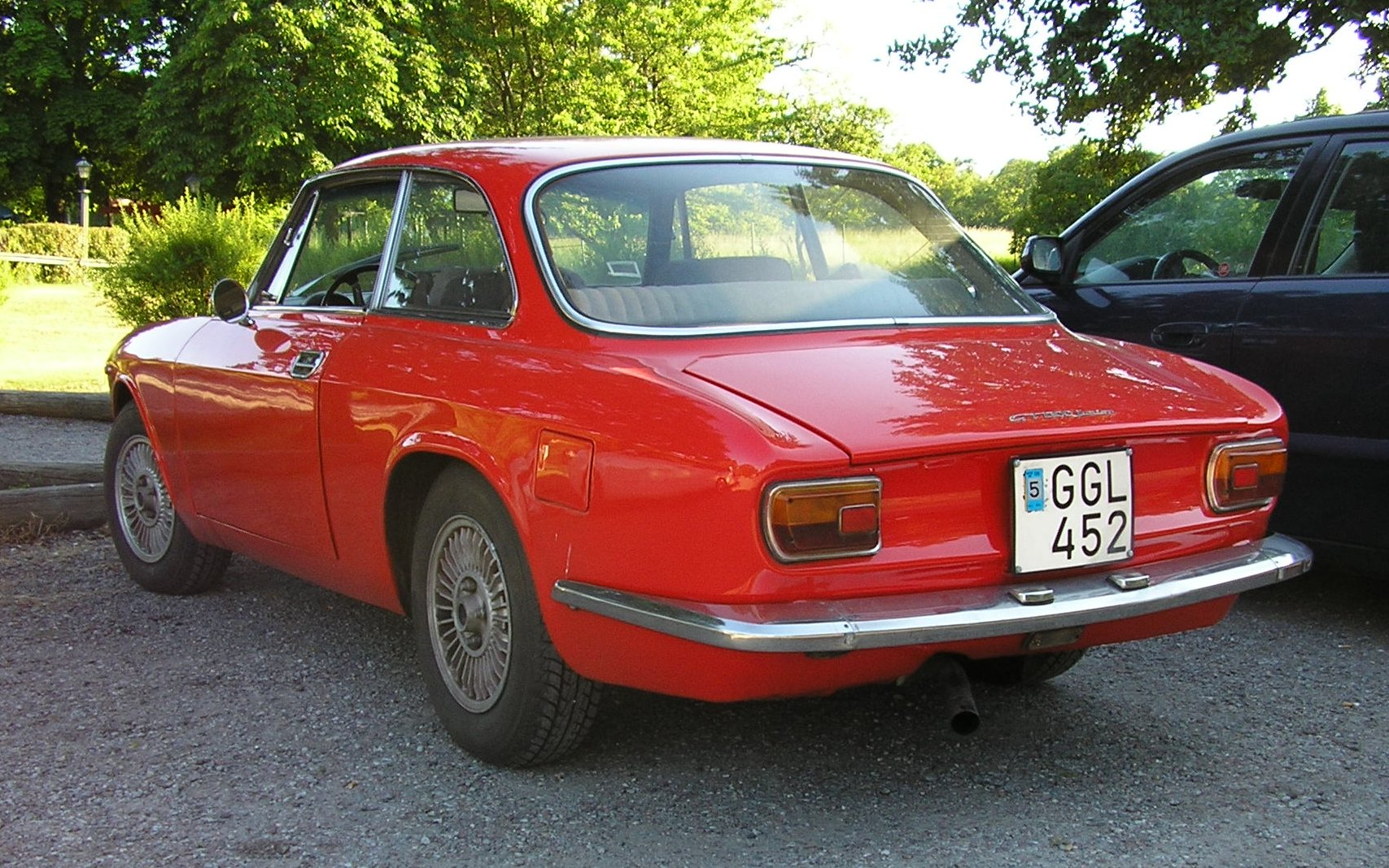 A 1972 Alfa Romeo Giulia 1300GT. Photographed by myself at Brostugan, Stockholm, Sweden 2005.